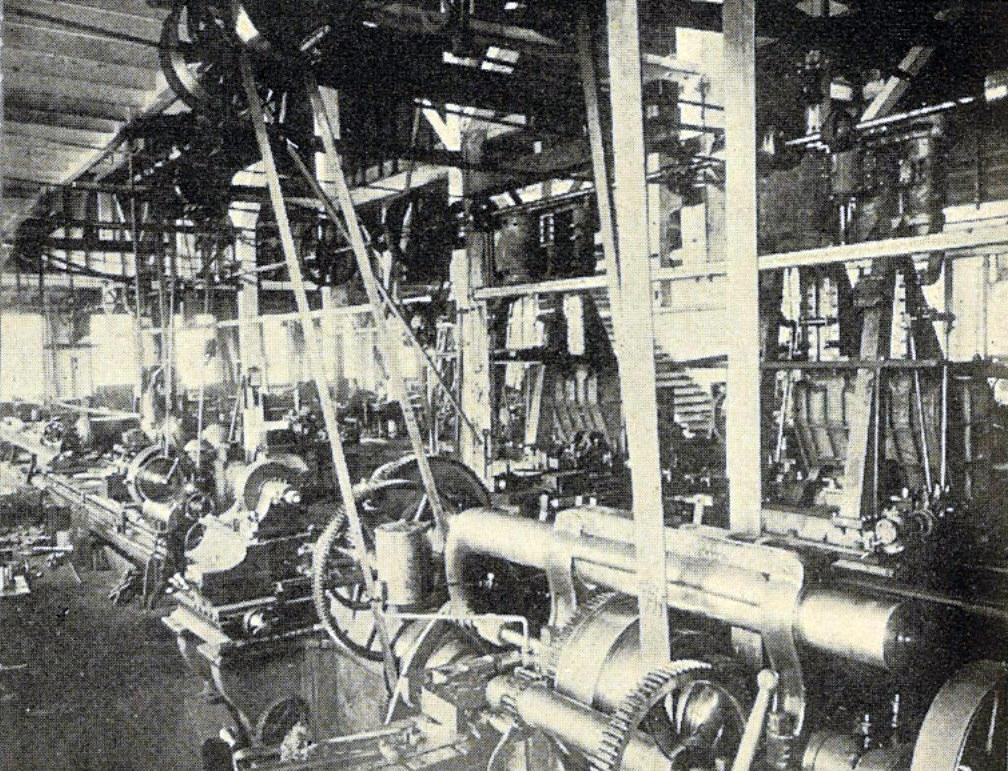 One of a pair of photos in the brochure Seattle and the Orient (1900), jointly captioned as "Some inside views of the Vulcan Iron Works". The picture is also individually captioned "Interior of machine shop". According to the previous page of the same brochure, Vulcan Iron Works was located at Fifth Avenue and Lane Street, roughly at the western edge of what is now Chinatown within Seattle's International District, and covered an entire city block. At that time, the Chinese neighborhood was a bit further west and north. The Industrial District now begins a few blocks further south, at Dearborn. In 1900, the area around Fifth and Lane had not yet been regraded; the Jackson and Dearborn regrades were just about to happen, but had not yet occurred.